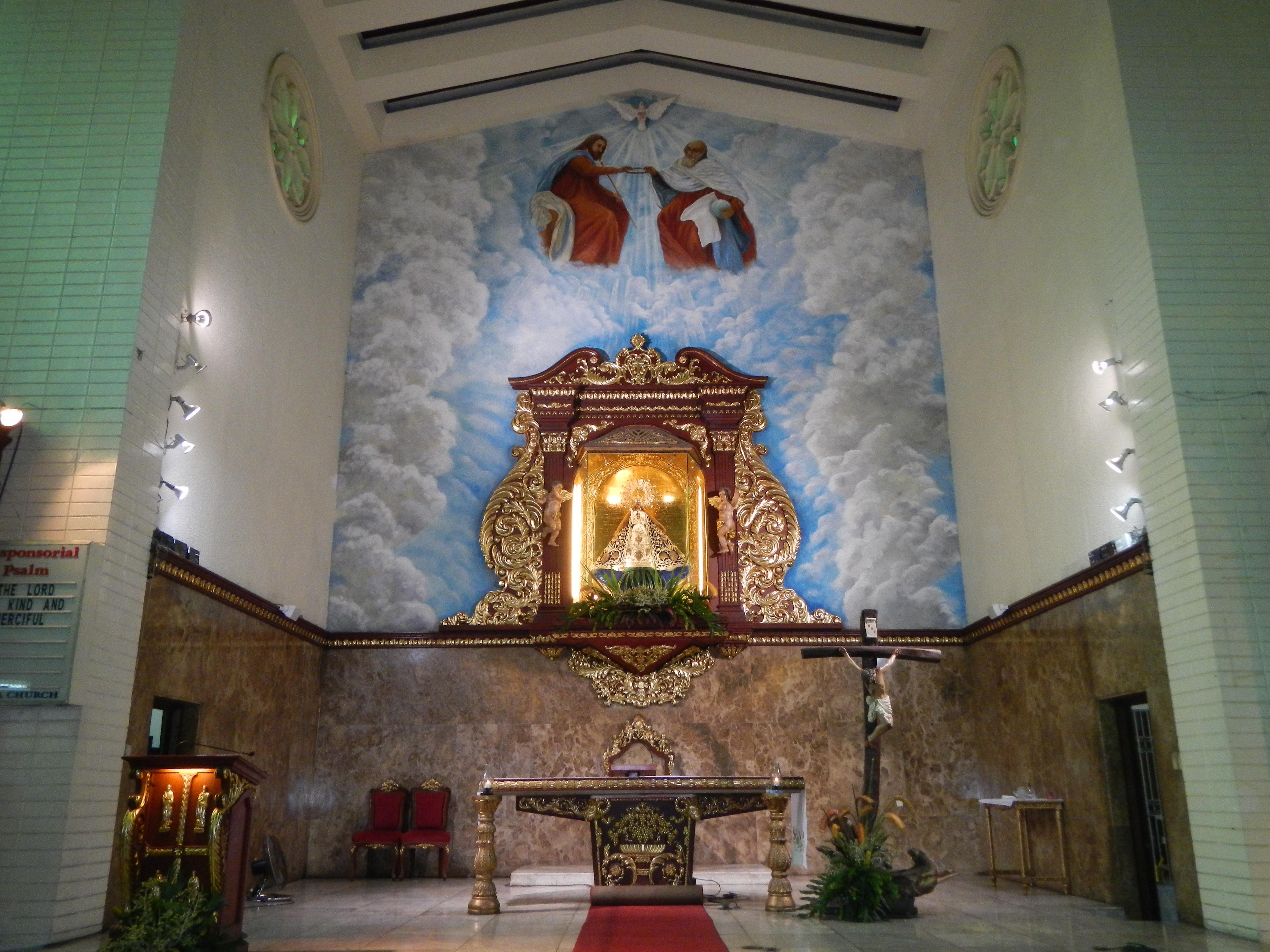 1521 Our Lady of Guidance[1] (Spanish: Nuestra Señora de Guia) is a 16th-century Roman Catholic image of the Blessed Virgin Mary venerated by Filipino Roman Catholics. Claiming to be the oldest Marian image in the Philippines, the wooden statue is believed to have been originally brought by Ferdinand Magellan (along with Santo Nino de Cebu). Locally venerated as patroness of navigators and travellers, the statue is enshrined in the Nuestra Señora de Guia Archdiocesan Parish in Ermita, Manila. Archdiocesan Shrine of Nuestra Señora de Guia Parish ( Ermita Church) - 441st Feast of Our Lady of Guidance - May 18, 2012[2]; the image of Our Lady was found on May 19, 1571, making it the oldest among all those venerated in the Philippines. In 1578, the king of Spain, in a royal decree, declared Our Lady of Guidance as the “sworn patroness” of Manila. [3]Coordinates: 14°34'43"N 120°58'48"E[4]Vicariate of Nuestra Señora De Guia[5] Nuestra Señora de Guia Parish and Archdiocesan Shrine Ermita, Manila belongs to the Roman Catholic Archdiocese of Manila[6][7][8] Archdiocesan Shrine Parish Priest:Fr. Sanny de Claro[9][10][11]Parochial Vicar: Father Artemio Fabros Attached Priest: Father Alexander Ramos Vicar Forane: Father John Leydon, MSSC Feastday: May 19 Titular: Our Lady of Guidance Immediate Preceding Pastor: Monsignor Geronimo F. Reyes, 1996 - 2004[12]